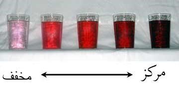 Very simple demonstration of qualitative differences in dye concentration (Dilution-concentration simple example)